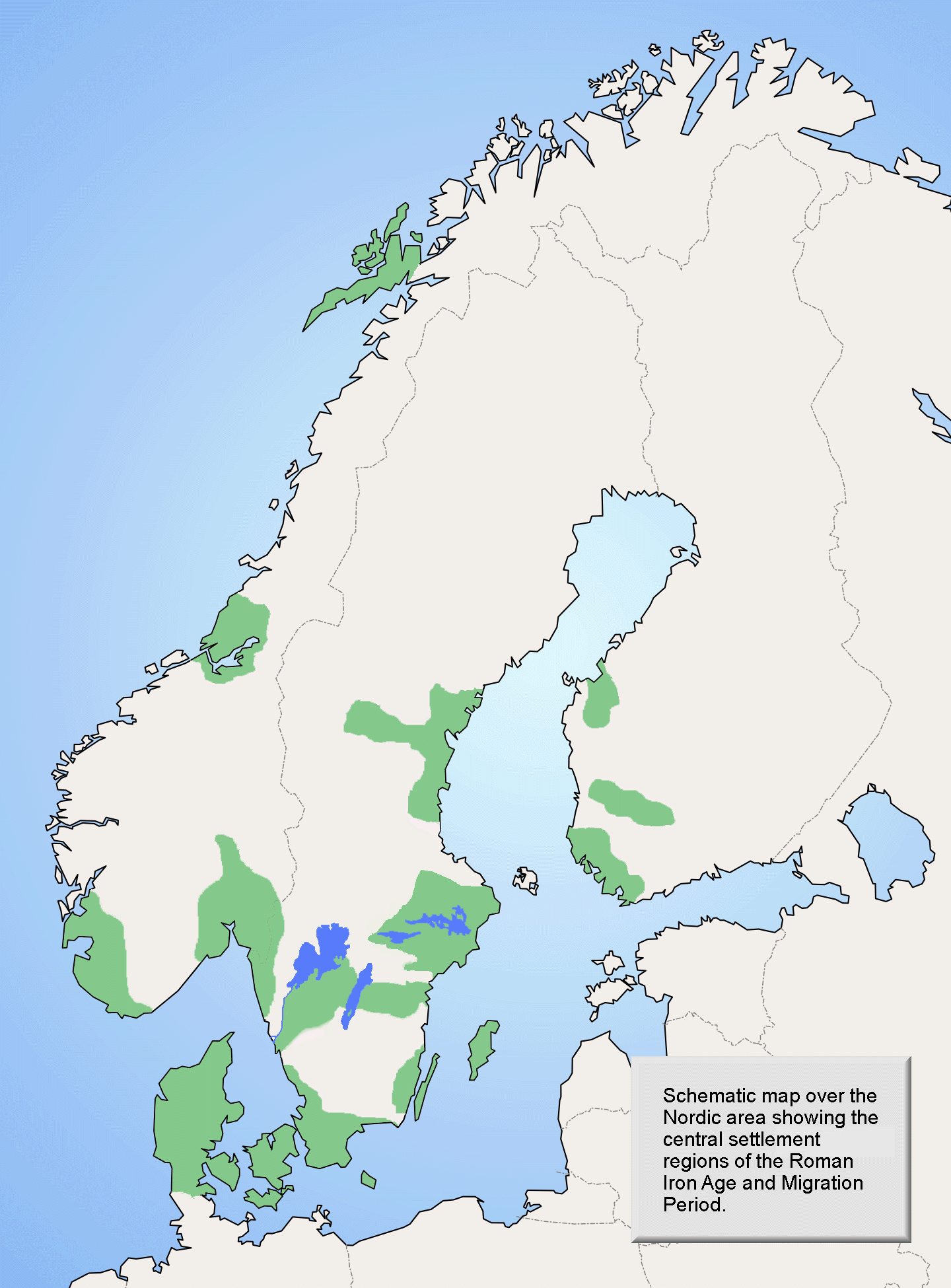 Schematic map showing separate Nordic regions of central settlements during the Migration Period (c. 400-600 AD), interpreted as at least 13 possible petty kingdoms. Based on analyses of ancient finding concentrations, made by Umeå University. Map based on: (archived link